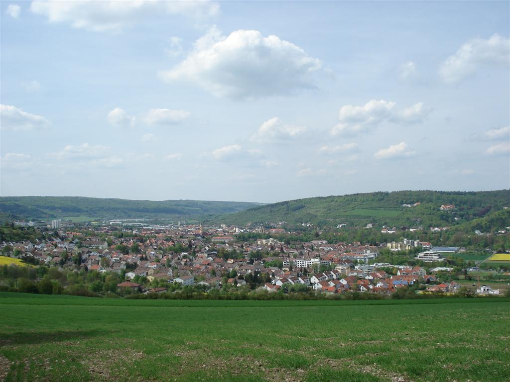 View of Bad Mergentheim